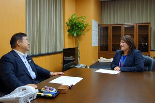 Noriko Mizoguchi, Associate Professor of the Faculty of Cultural Policy and Management, Shizuoka University of Art and Culture, talked with Toshiaki Endō, Minister in charge of the Tokyo Olympic and Paralympic Game, on August 20, 2015.